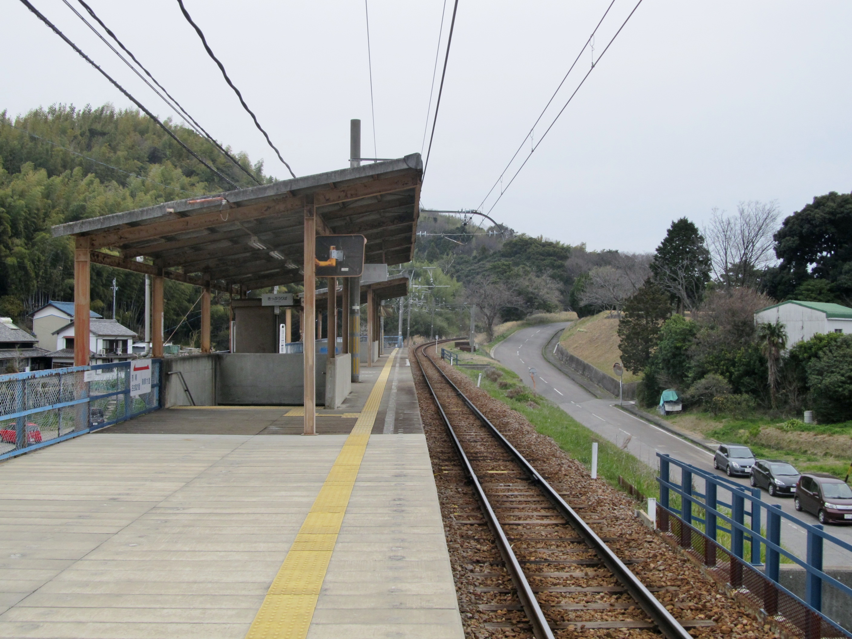 Nagoya Railroad Gamagōri Line Kodomonokuni Station Platform